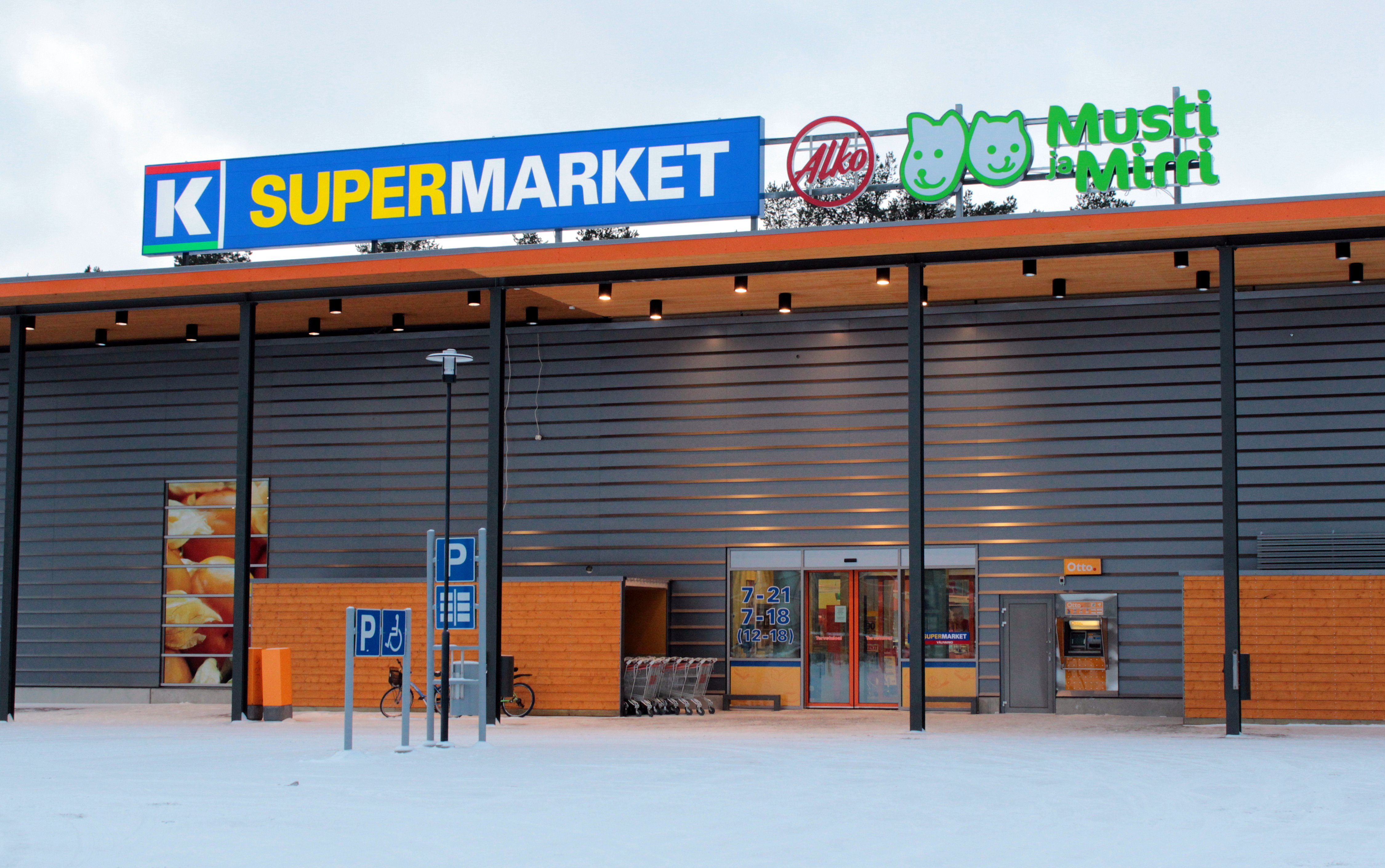 K-Supermarket in Välivainio, Oulu.